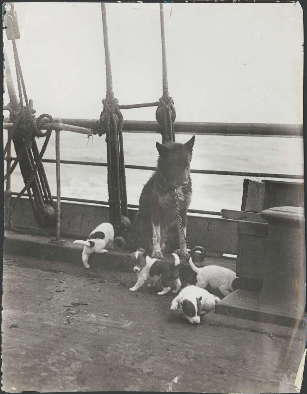 Ginger, a sled dog of the Australasian Antarctic Expedition, and her pups born on board Aurora en route to Hobart 1911